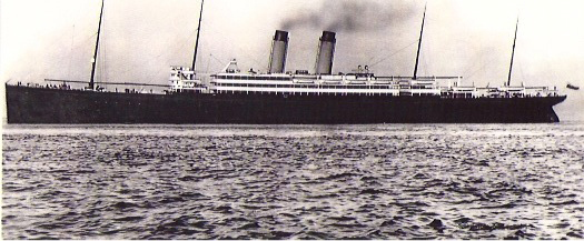 The RMS Cedric